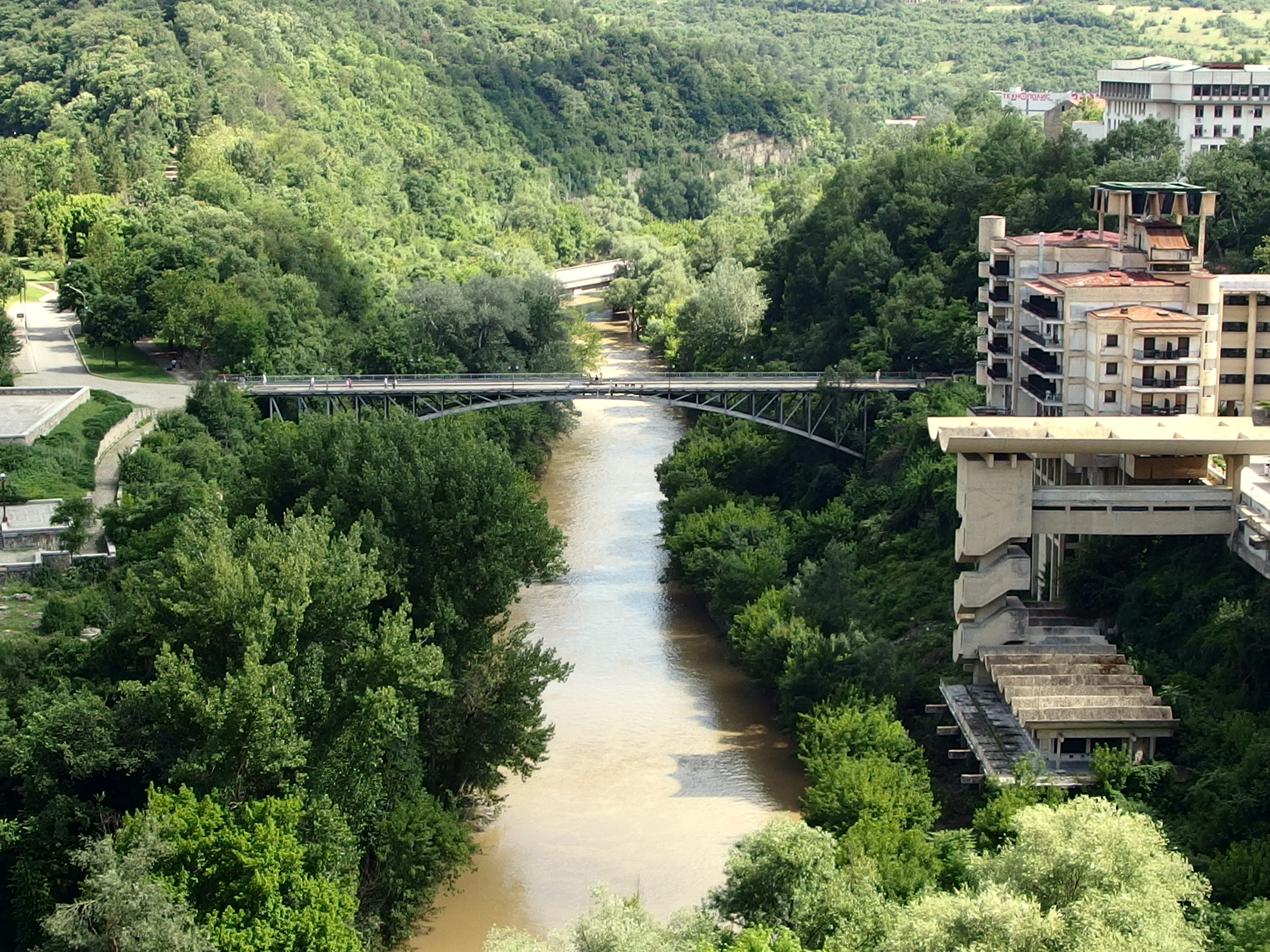 2014-06-21 in Veliko Tarnovo.